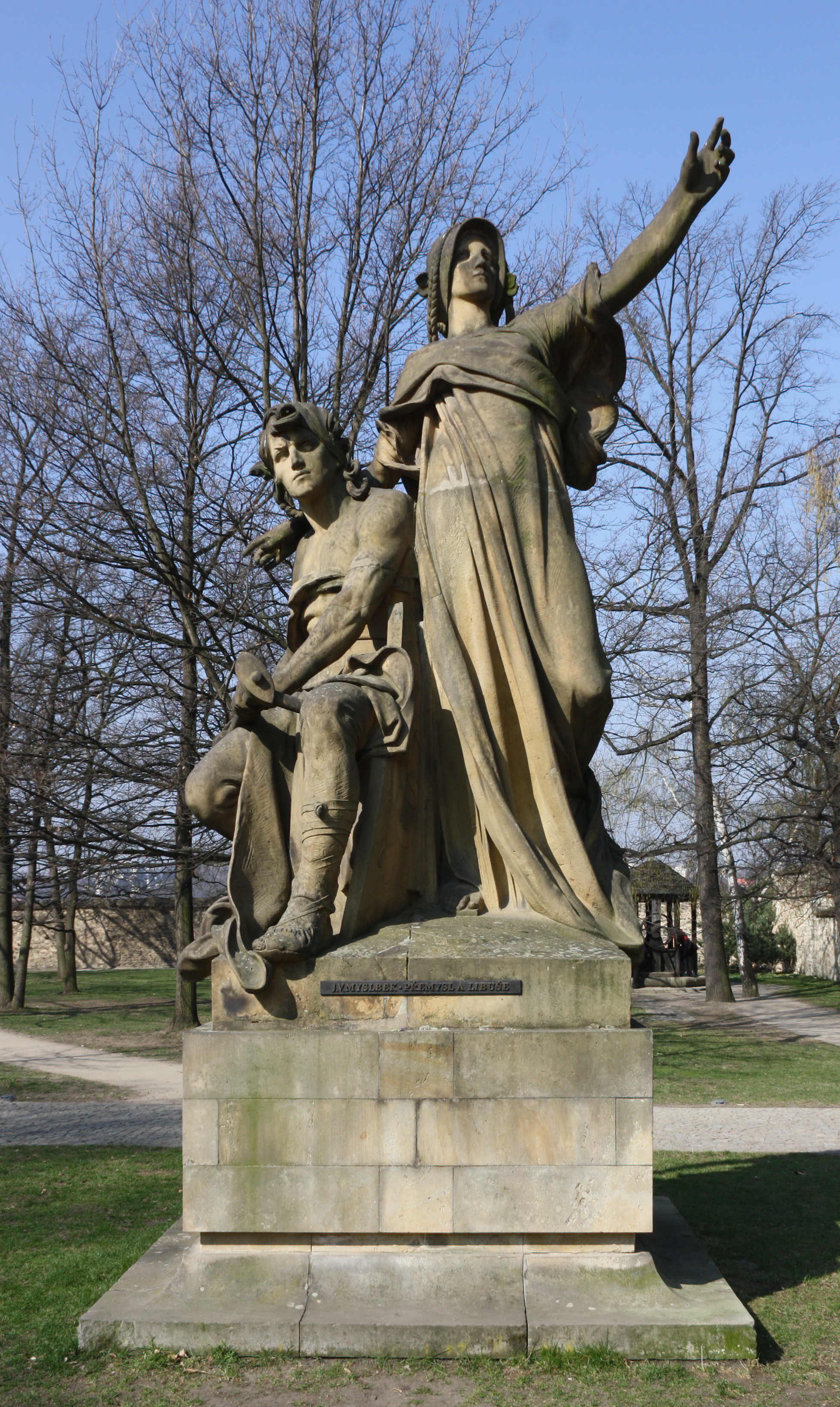 Statues of Libuše and Přemysl in park in Vyšehrad, Prague, Czech Republic This photograph was taken with a DSLR from WMCZ's Camera grant.